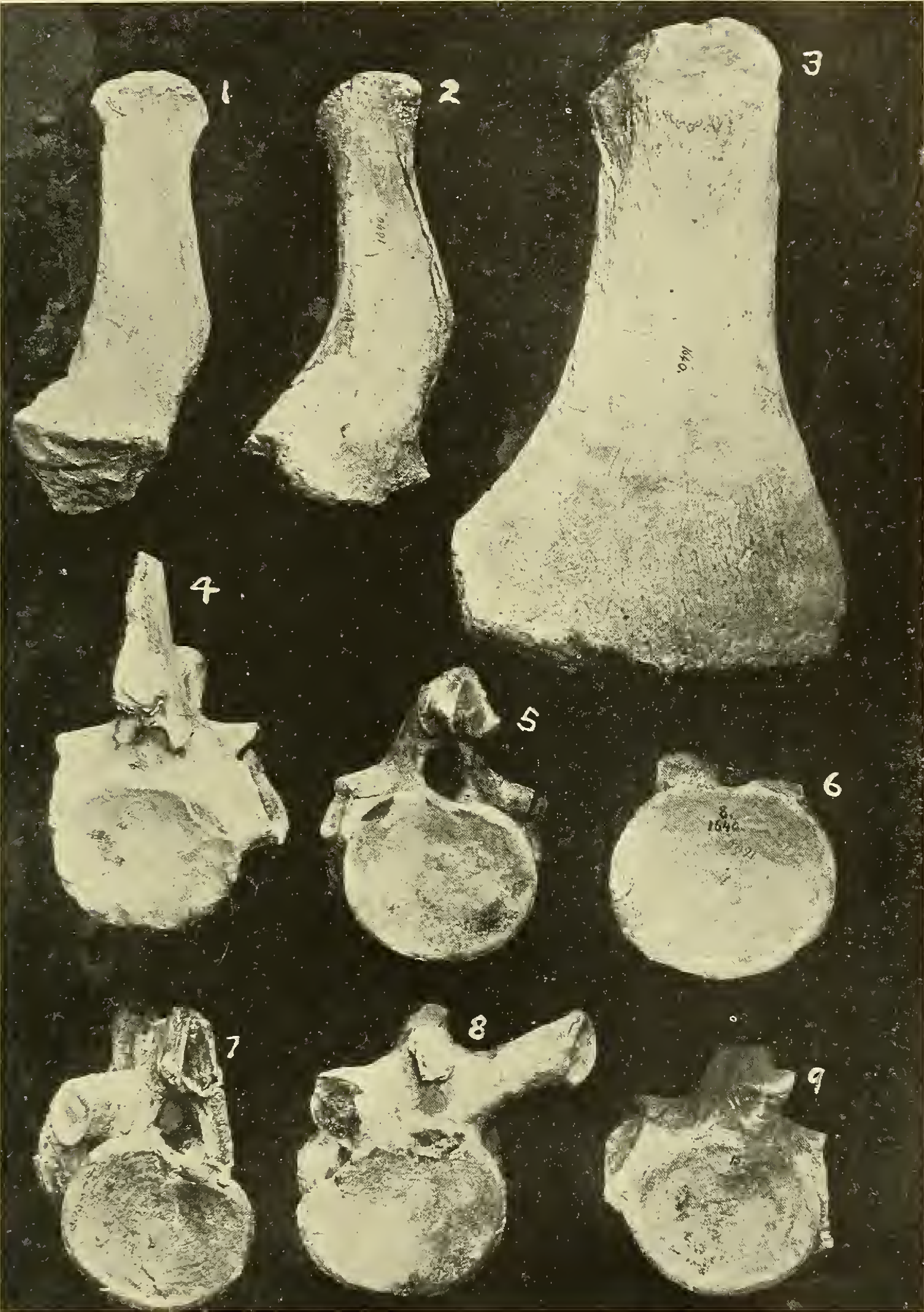 North American Plesiosaurs: Elasmosaurus, Cimoliasaurus, and Polycotylus